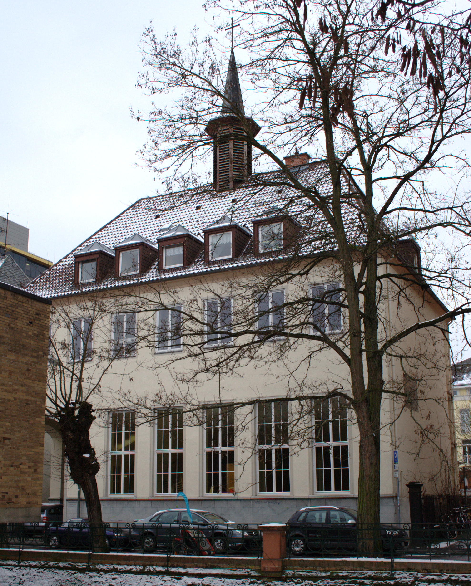 Church (Lukaskirche) in Gießen Loeberstrasse 4 / Hesse / Germany